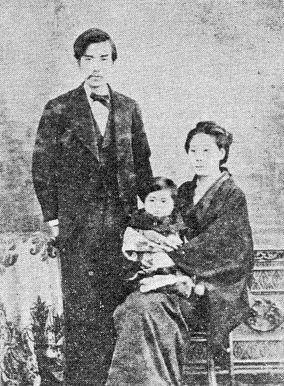 Rev. Paul Sawayama and his wife Chika and his first daughter Isa